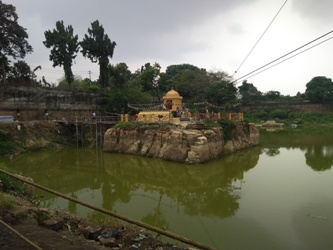 Full view of Sivaganga tank temple in Sivaganga Park, Thanjavur, Tamil Nadu, India